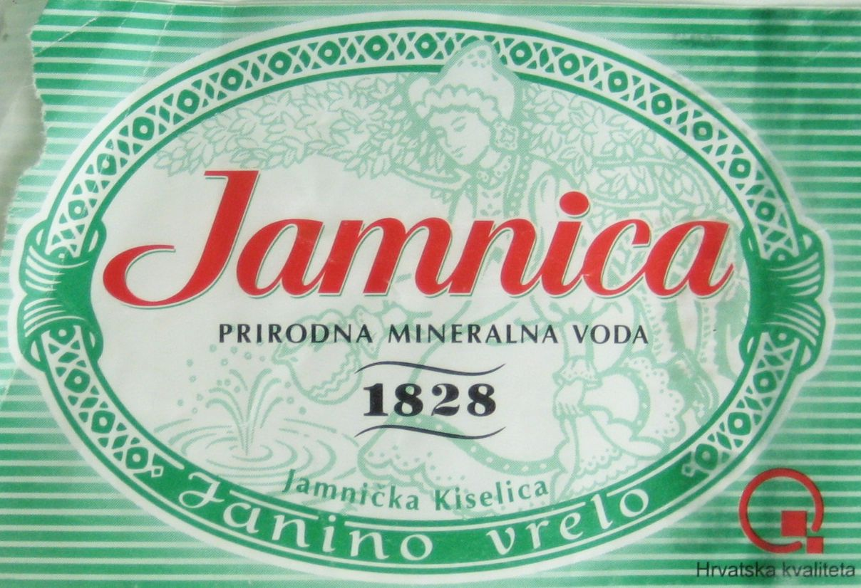 Old bottle label bottled water Jamnica.